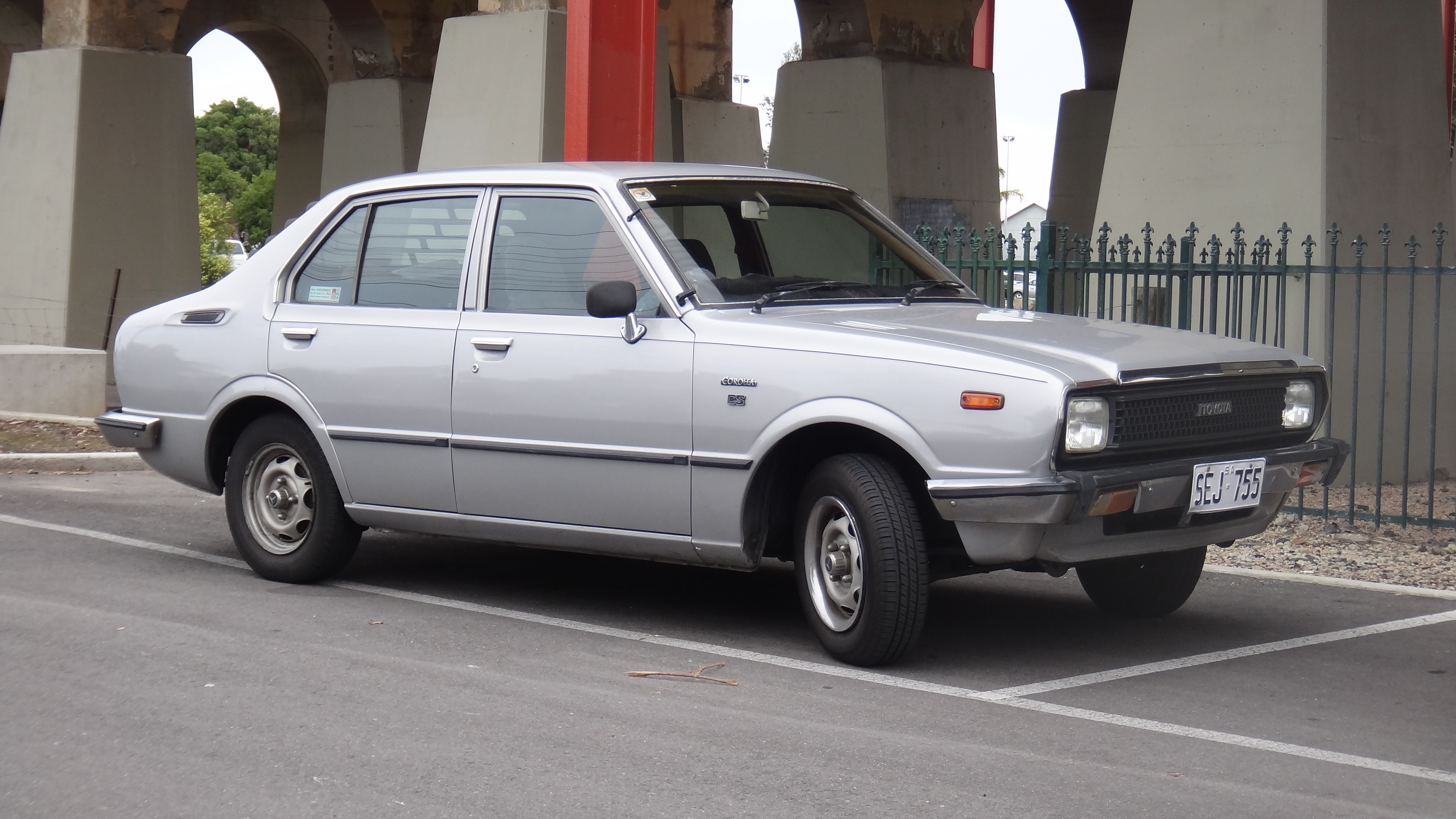 A very rare sight on Australian roads nowadays! It's hard to believe how common they were even 15 years ago! This one still looks to be in reasonable condition. Nice to see one still around.